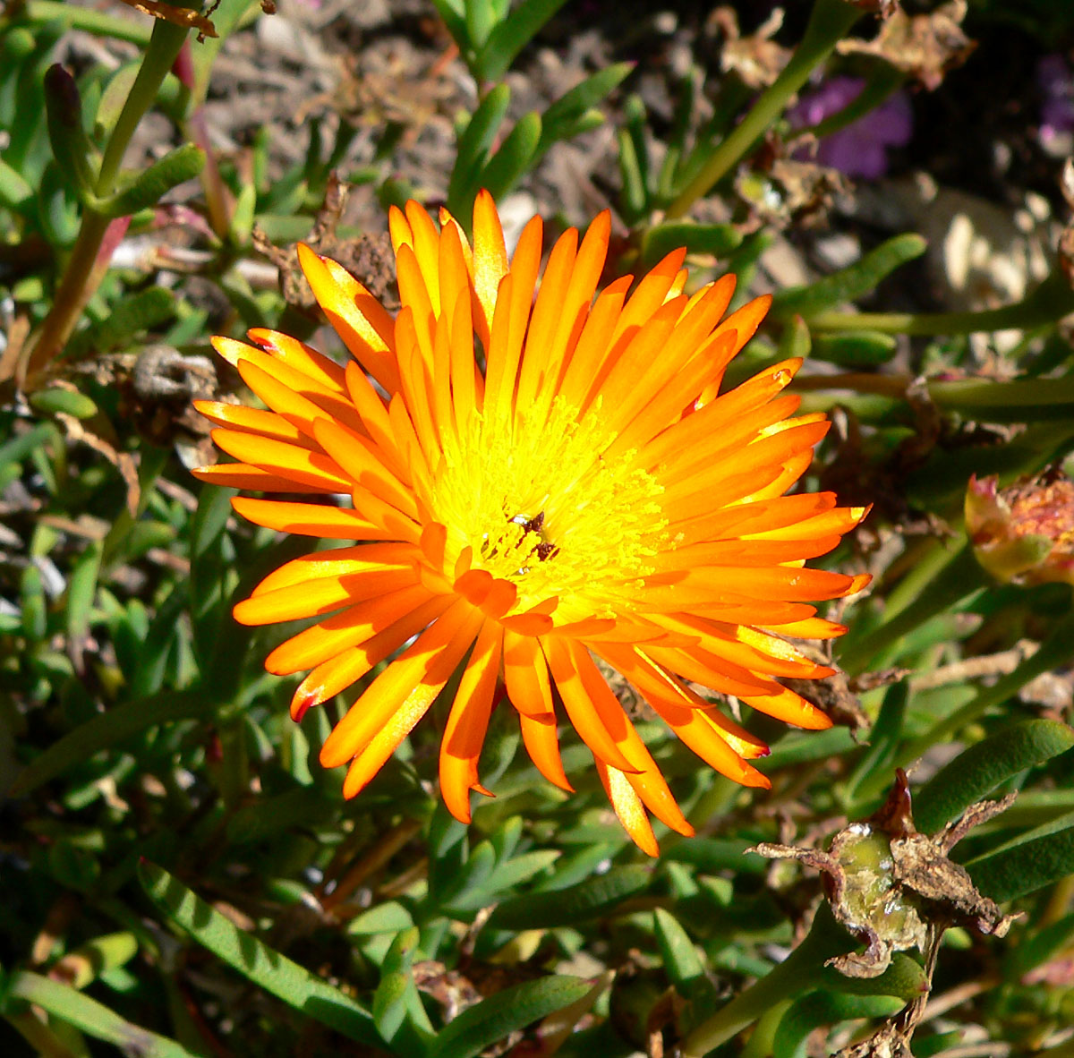 Lampranthus glaucoides at the University of California Botanical Garden, Berkeley, California